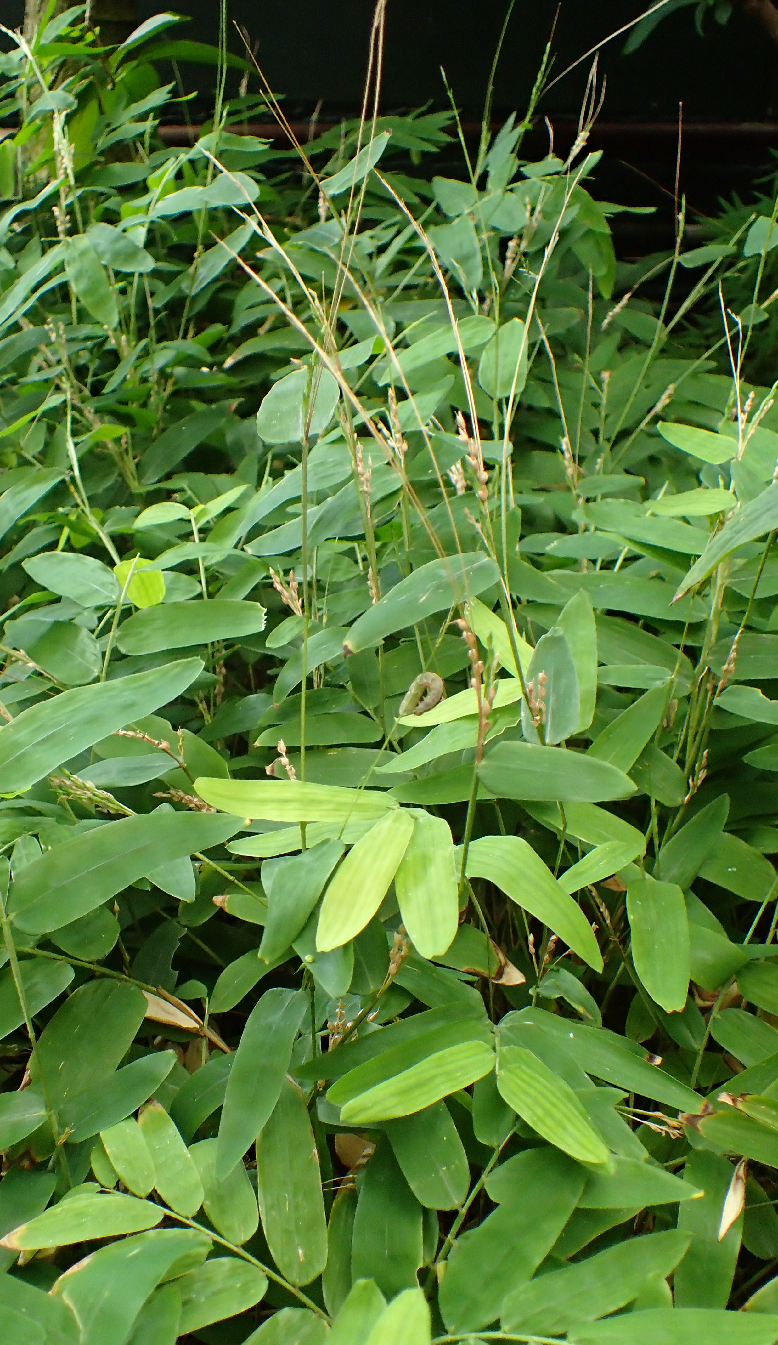 Raddia brasiliensis at the New York Botanical Garden